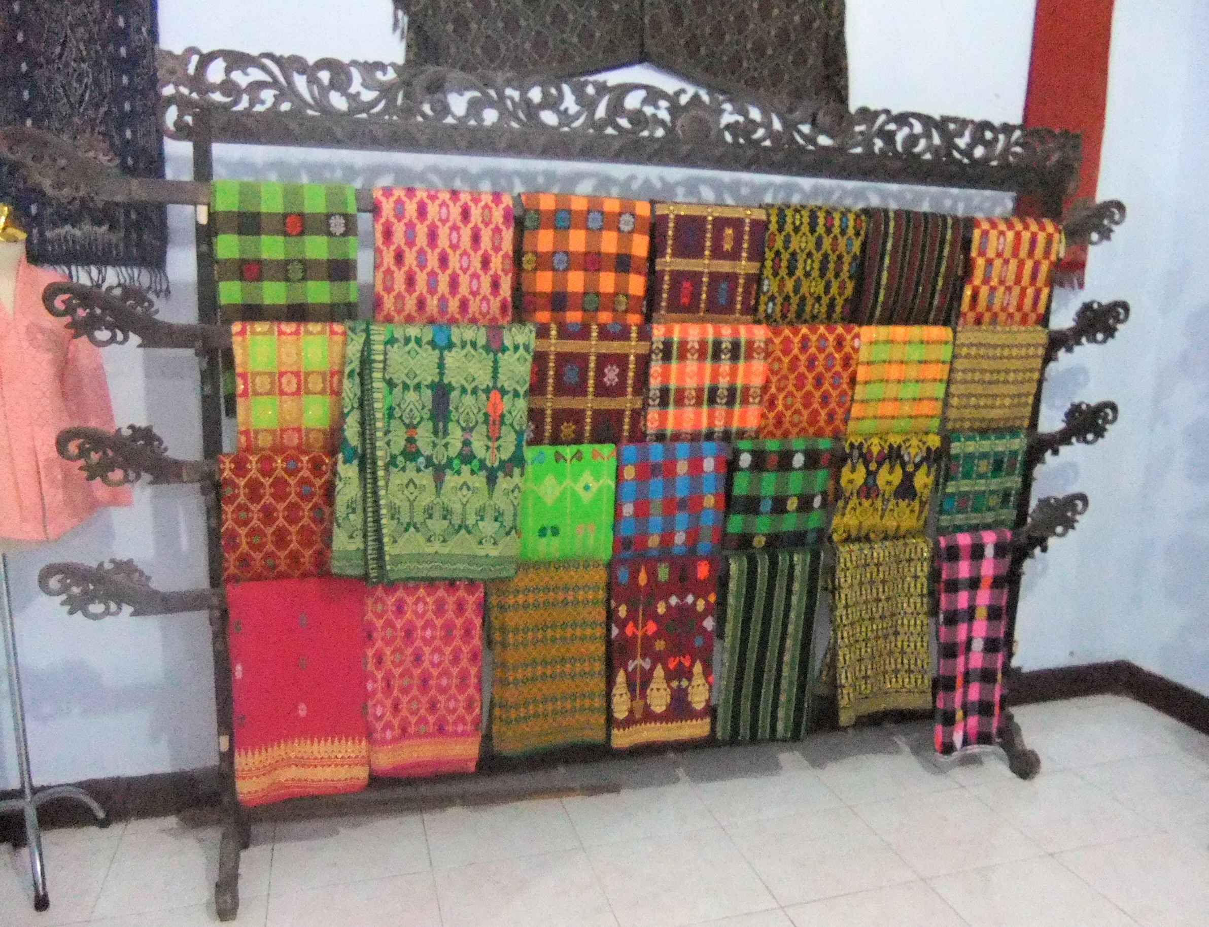 Tenun Ikat Lombok, Indonesia